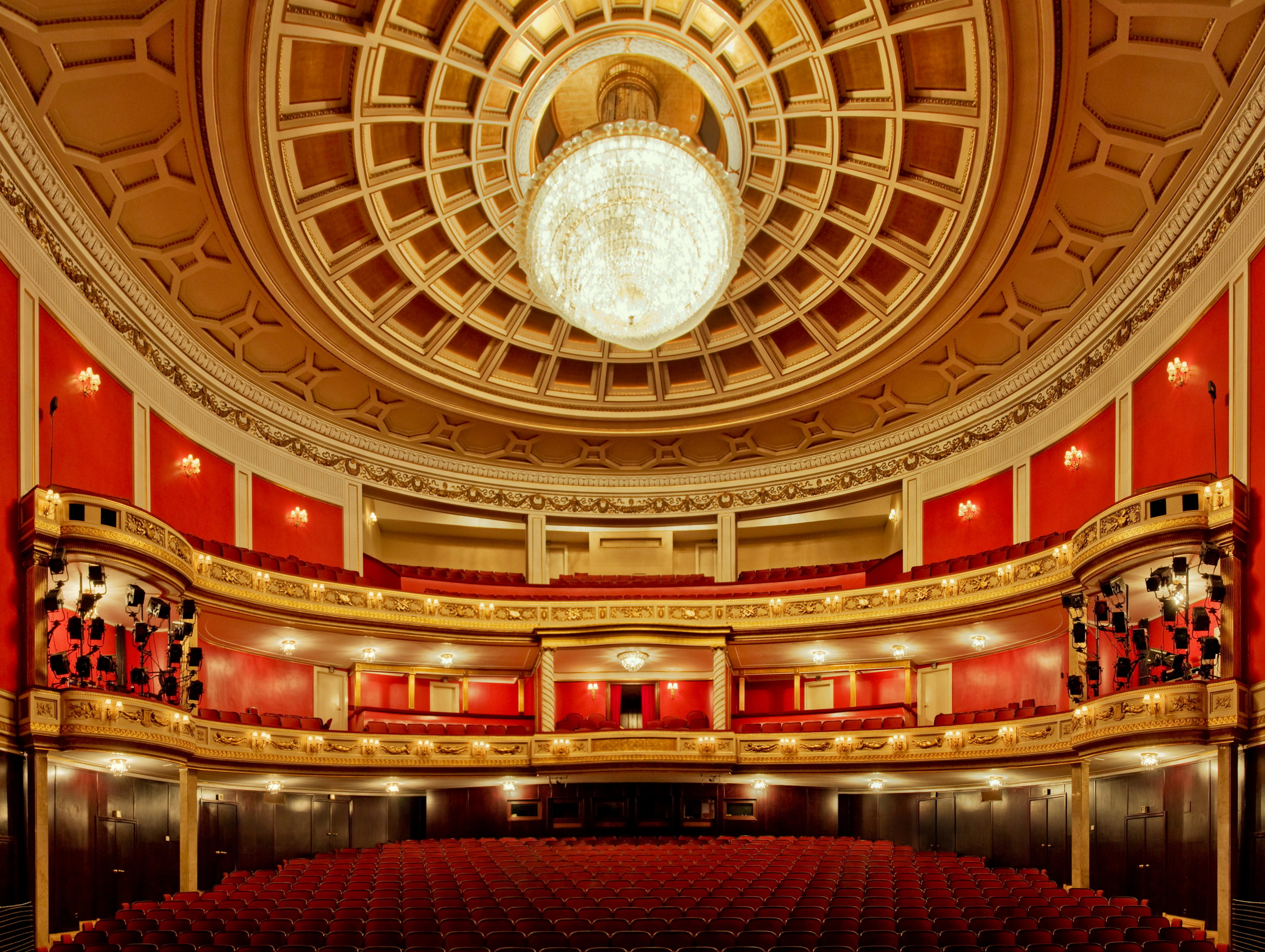 The audience of Poznan Opera House (a fisheye lens view)